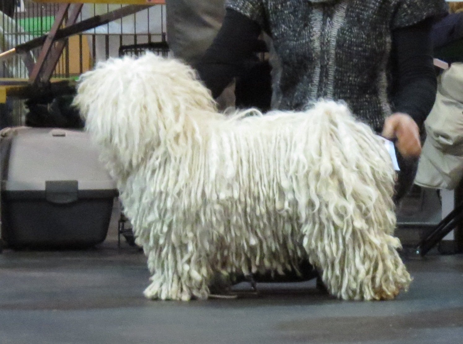 Riga, Baltic Winner 2013, 9-10 Nov